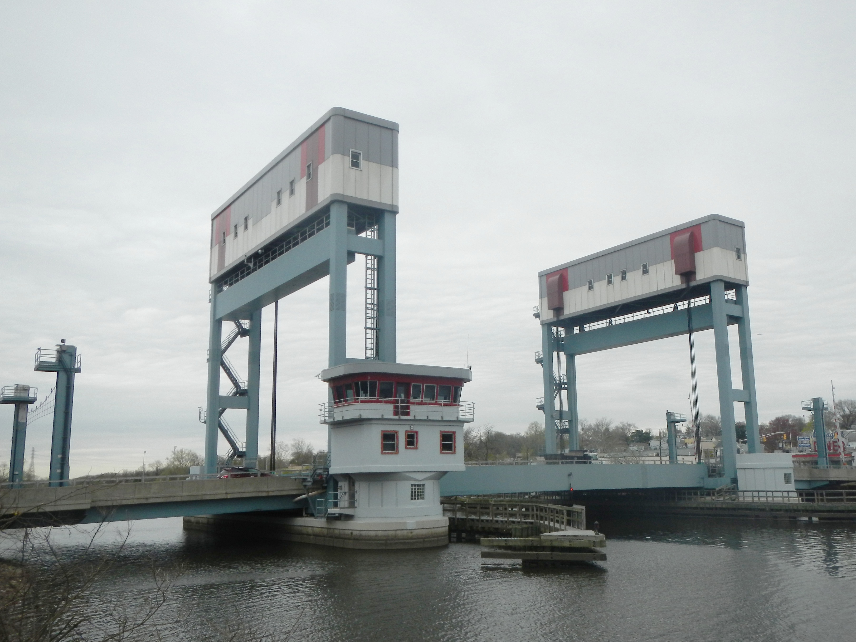 Looking northeast at bridge on a cloudy afternoon.